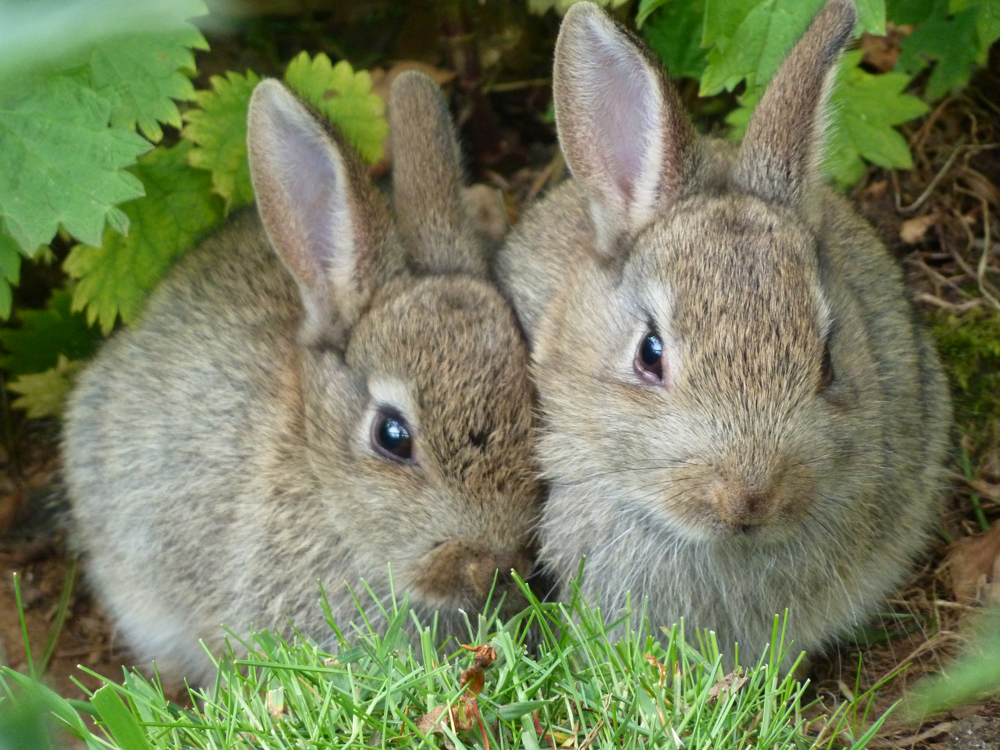 Two wild rabbits found in undergrowth at Edinburgh Zoo